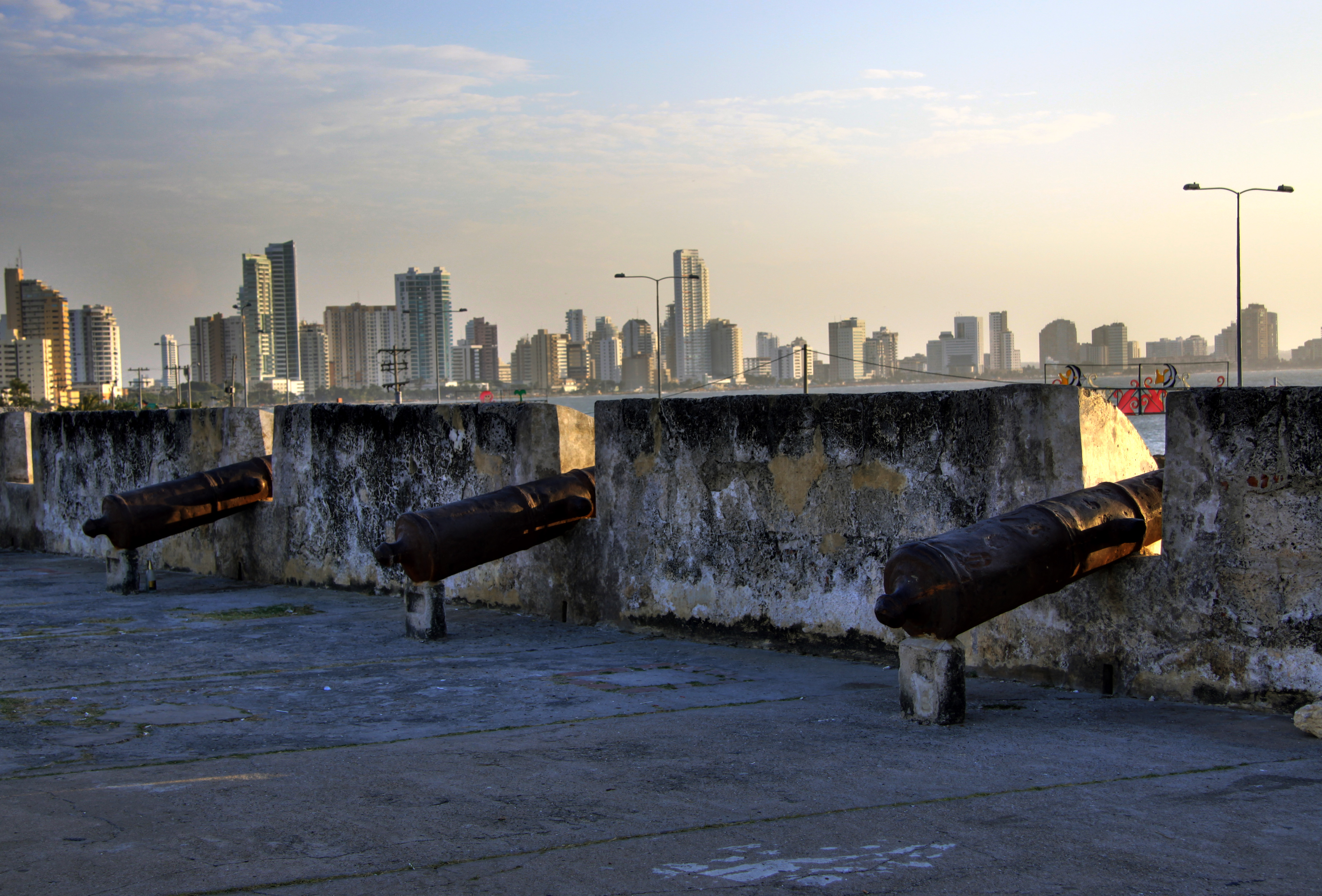 Please, have this description accessible to all by translating it in different languages.